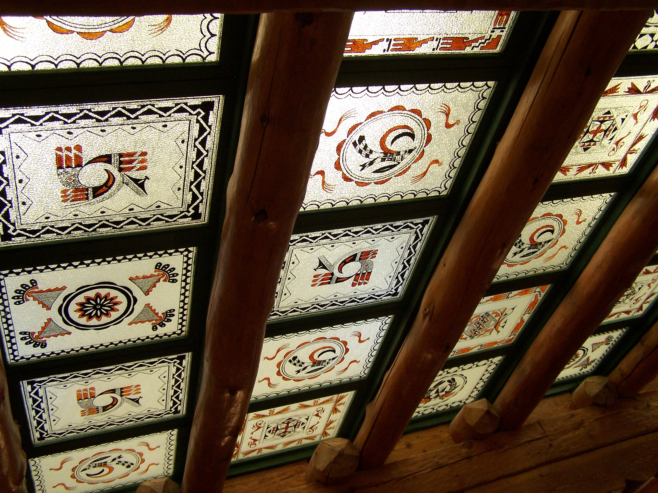 Hand-painted skylight panels done by the Civilian Conservation Corps have been recently refurbished and continue to grace the Painted Desert Inn Trading Post room. Image size: 2576 x 1932 File size: 1.55 MB